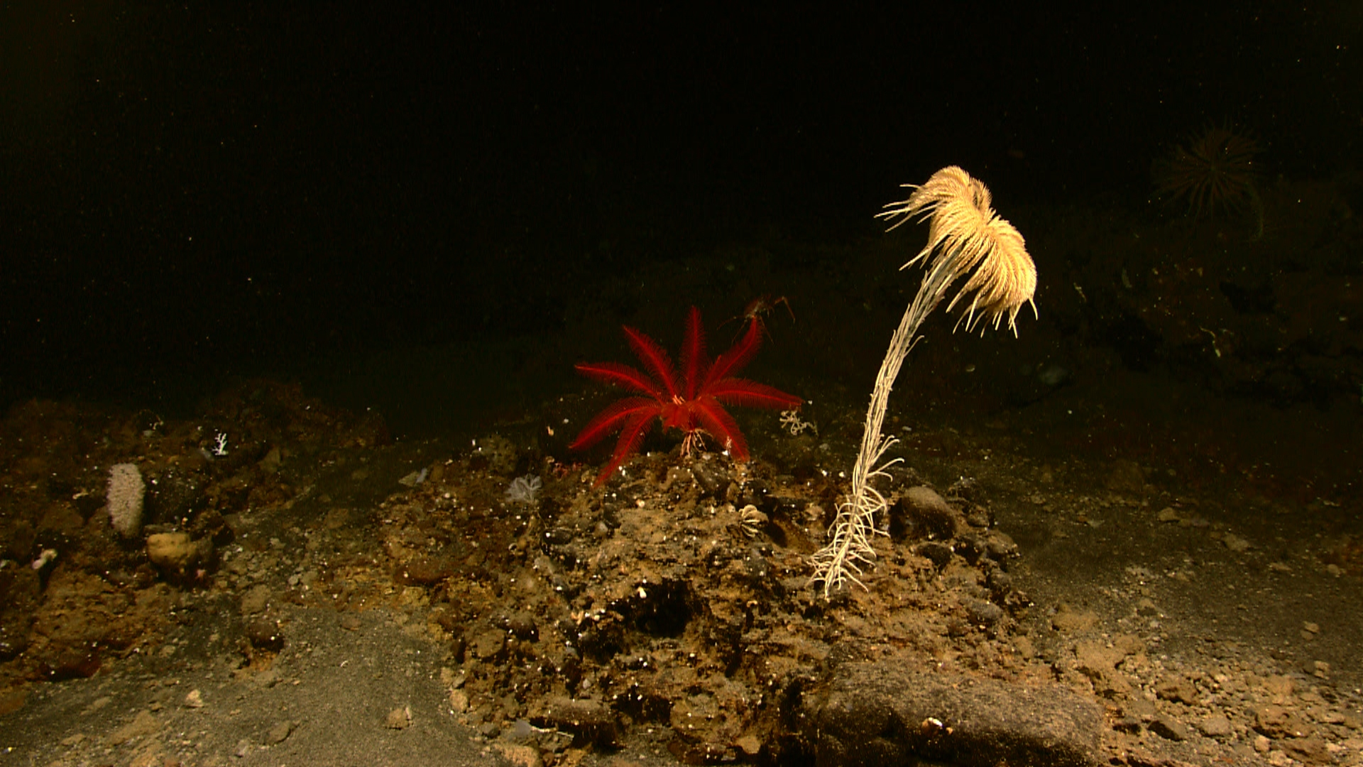 A large yellow-white feather star crinoid and a red feather star crinoid in the center. This region has a spectacular diversity of crinoids. Image ID: expl5409, Voyage To Inner Space - Exploring the Seas With NOAA Collect. Photo Date: 2010 July 3. Credit: NOAA Okeanos Explorer Program, INDEX-SATAL 2010.